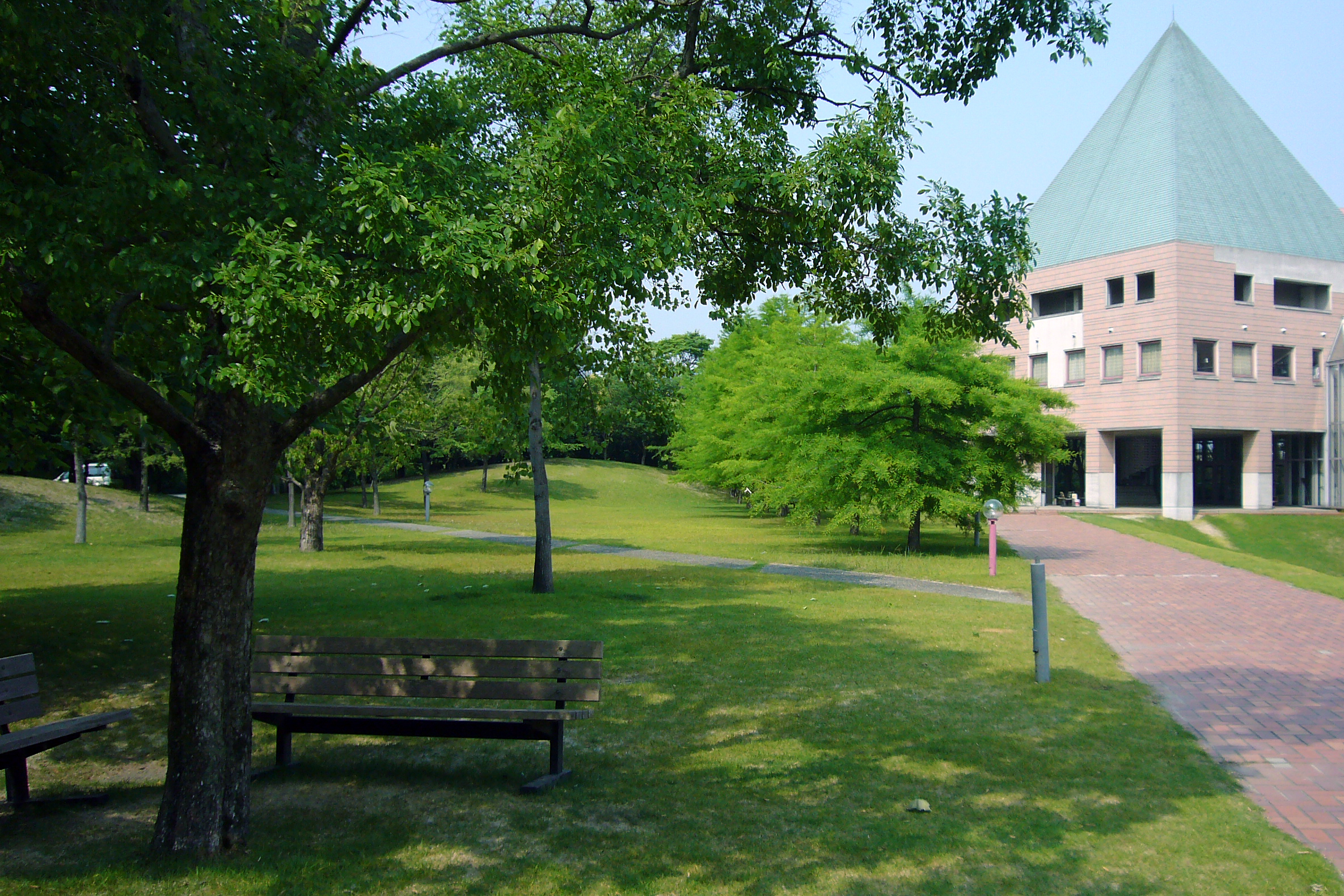 Osaka University of Arts Junior College in Itami, Hyogo prefecture, Japan